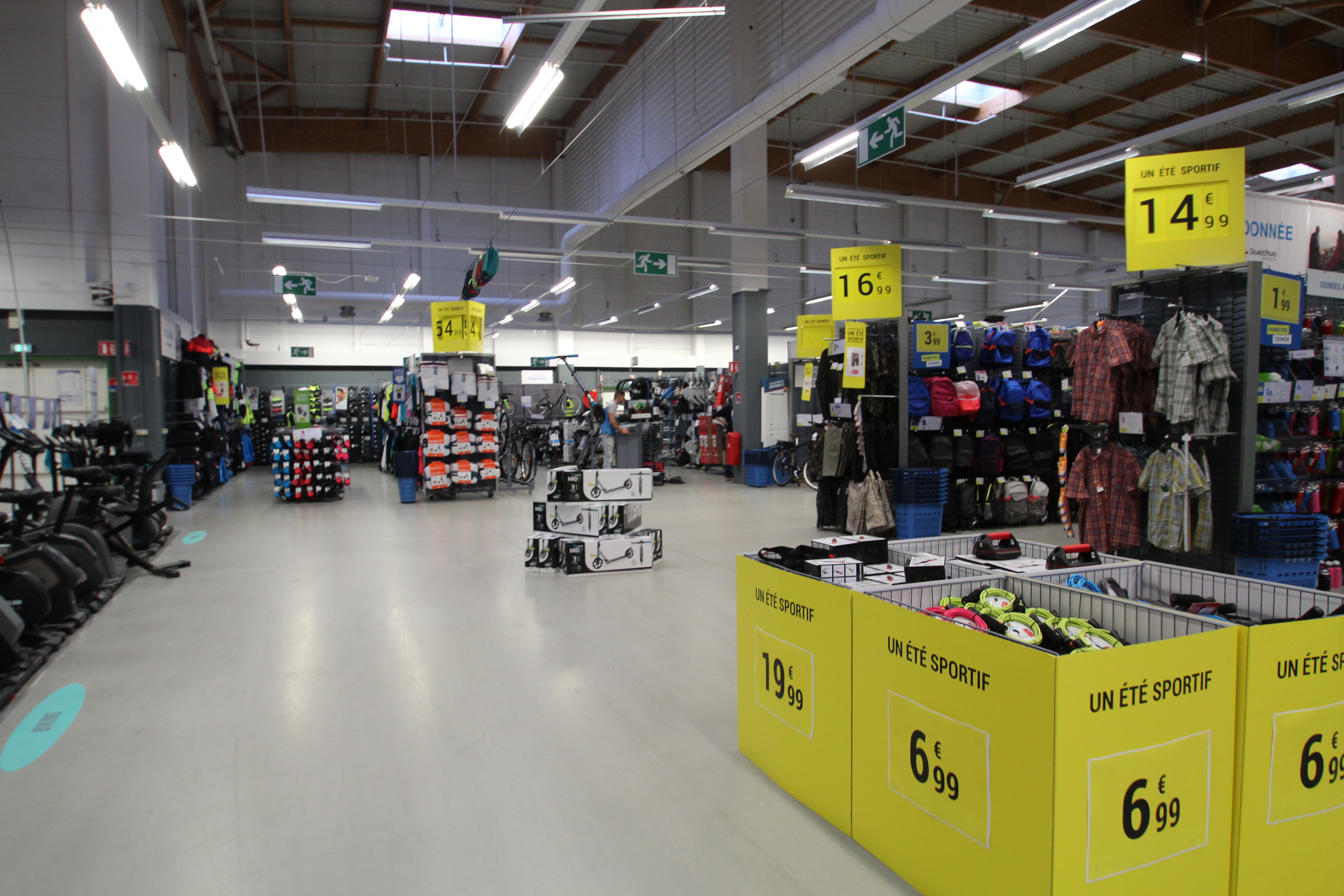 Inside of the Decathlon supermarket in Brétigny-sur-Orge, France. Object location48° 37′ 22.15″ N, 2° 18′ 04.54″ E